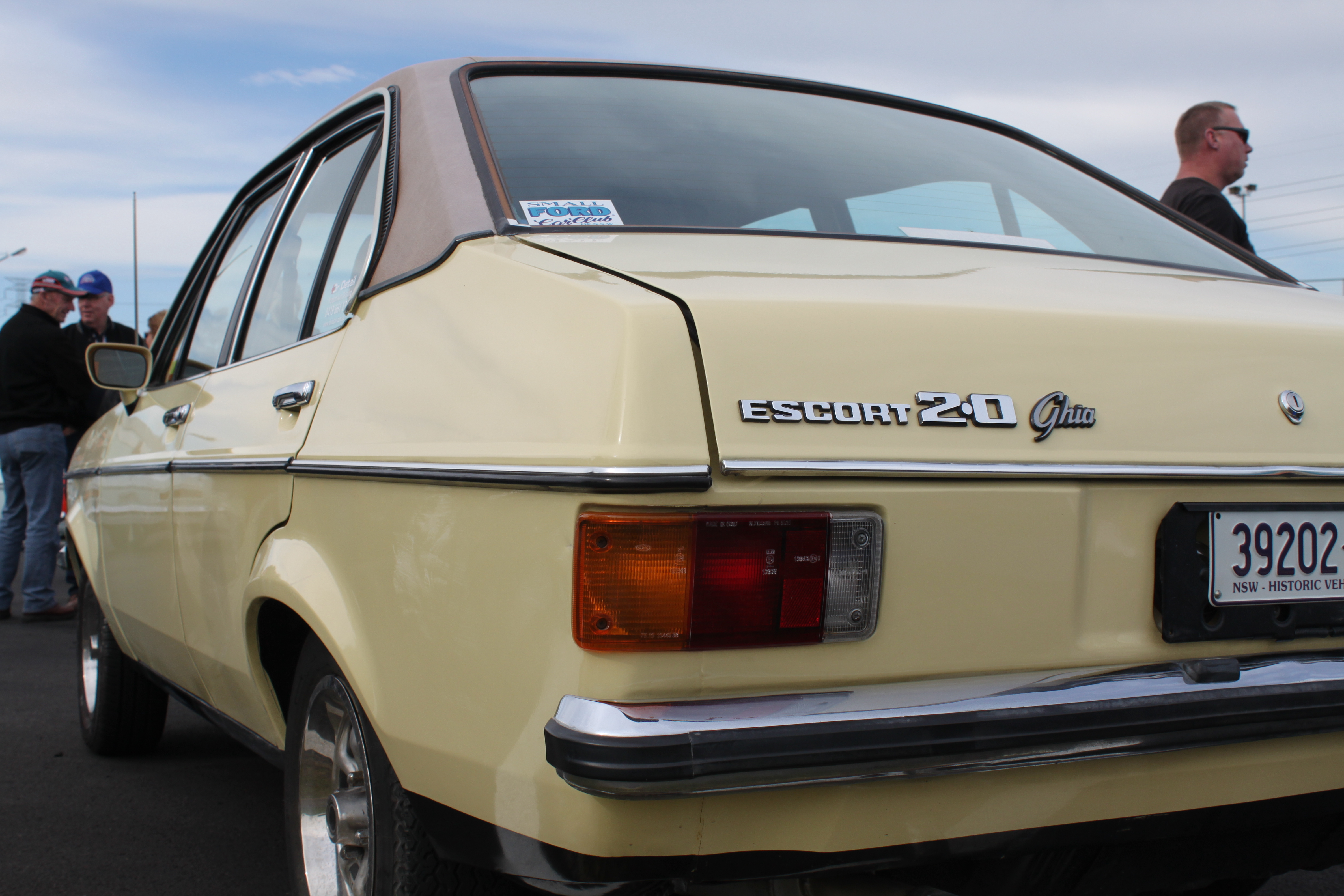 Ford Escort Mk2 Ghia